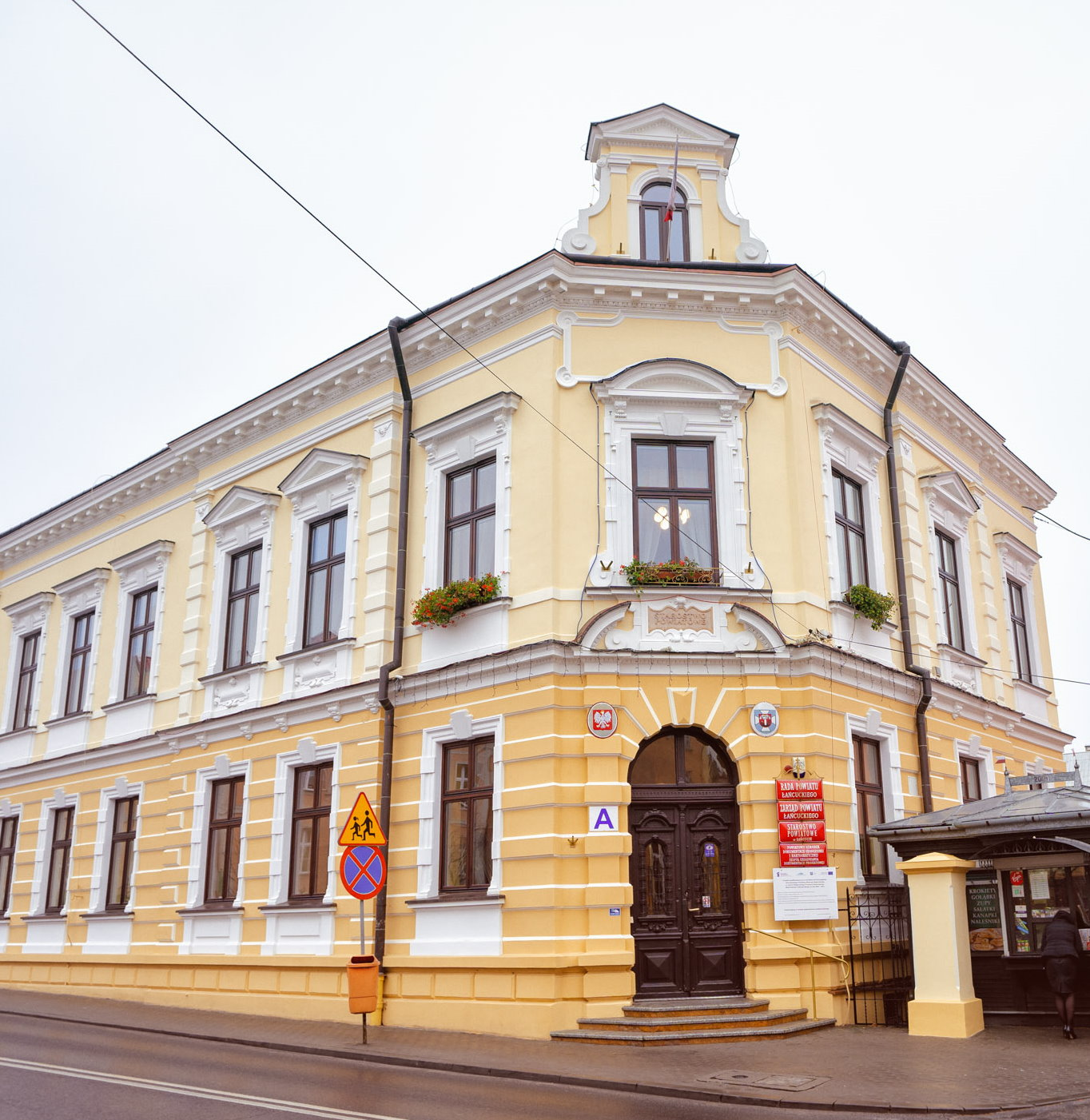 The seat of Starostwo Powiatowe in Łańcut